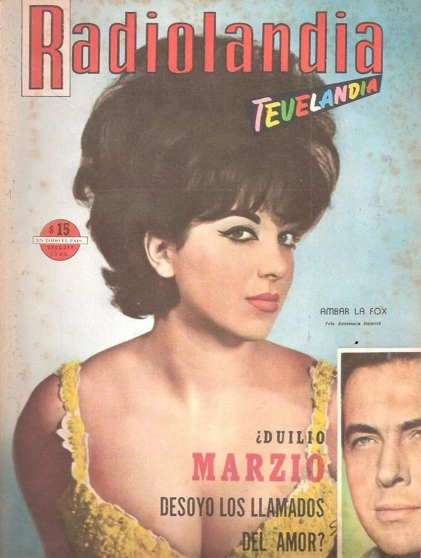 Ámbar La Fox on cover of Radiolandia 1964. Photograph by Annemarie Heinrich